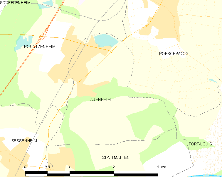 Map of French municipality